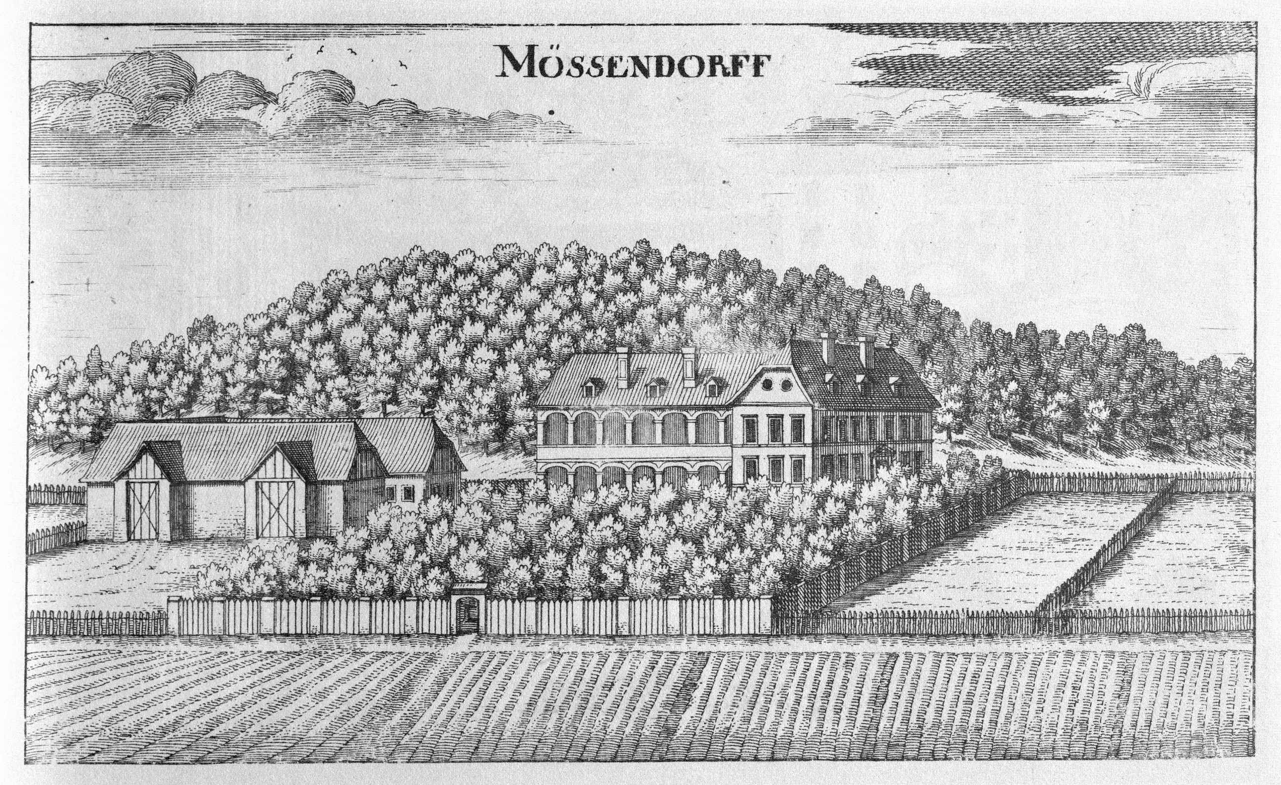 Castle Messendorf, Graz, Austria, Engravings by G. M. Vischer G. M. Vischers Käyserlichen Geographi, Topographia Ducatus Stiriae, Das ist: Eigentliche Delineation / und Abbildung aller Städte / Schlösser / Marcktfleck / Lustgärten / Probsteyen / Stiffter / Clöster und Kirchen / so es sich im Herzogthumb Steyrmarck befinden; Und anjetzo Umb einen billichen Preyß zu finden seynd Bey Johann Bitsch Universitäts Buchhandlern / Auff dem Juden=Platz bey der guldenen Saulen. Graz 1681 Die Nummerierung der Dateien folgt der alphabetischen Reihung der Ortsnamen